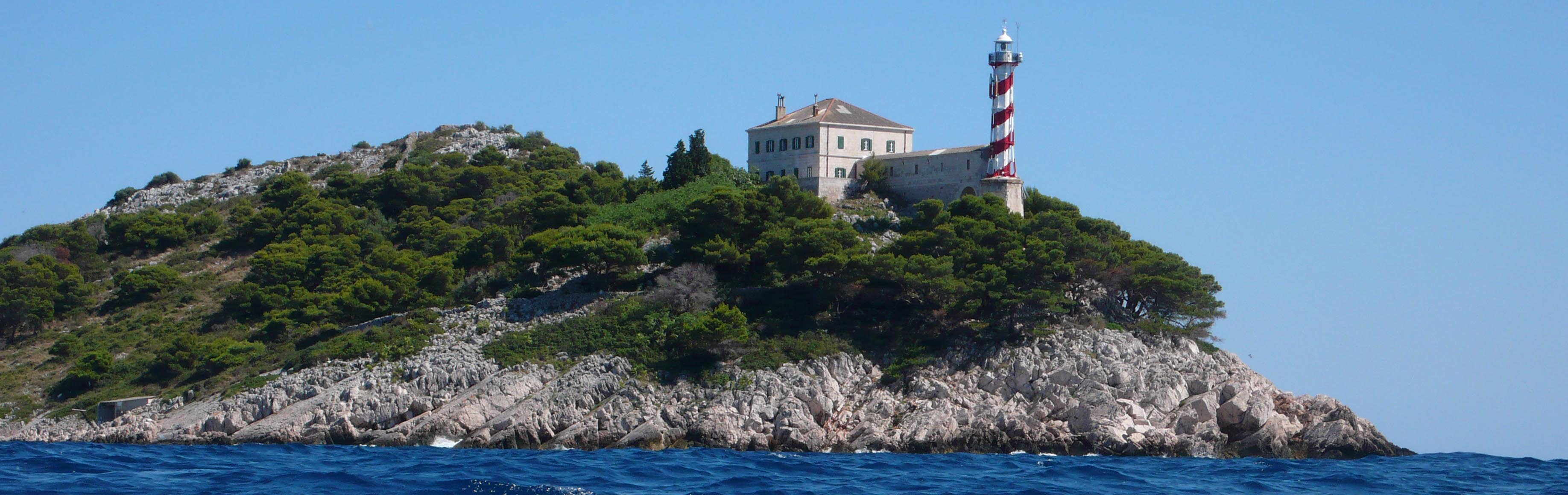 Lighthouse Sestrice, Kornati national park, Croatia